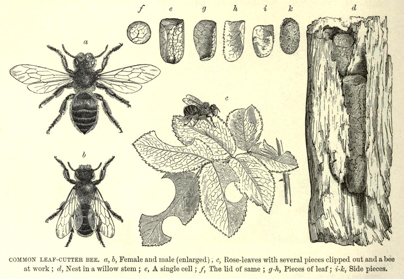 Life history of the leafcutter bee Megachile centuncularis.